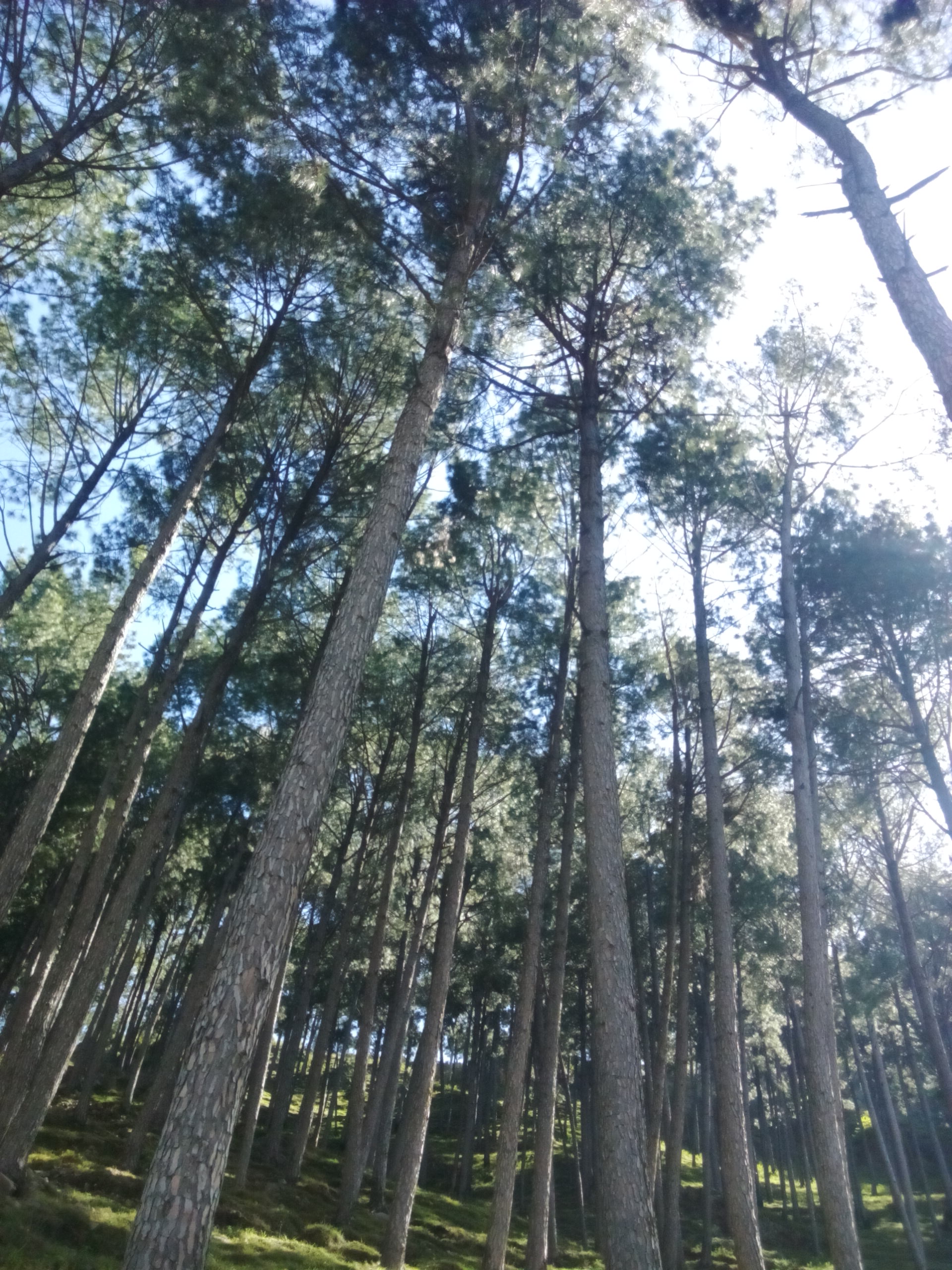 Sarban hill